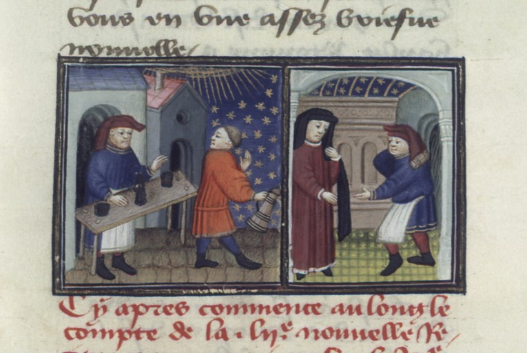 Boccaccio, Decameron, MS BNF Francais 239 f 171r